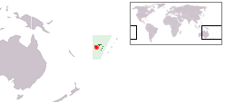 Viti Levu, the largest island of the Republic of Fiji. The former range of the extinct Viti Levu Giant Pigeon (Natunaornis gigoura), a giant flightless pigeon species described in 2001.